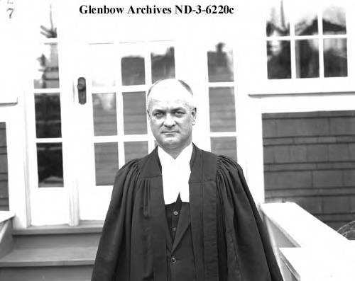 Photo of William R. Howson taken in 1932 possibly in Edmonton, Alberta.